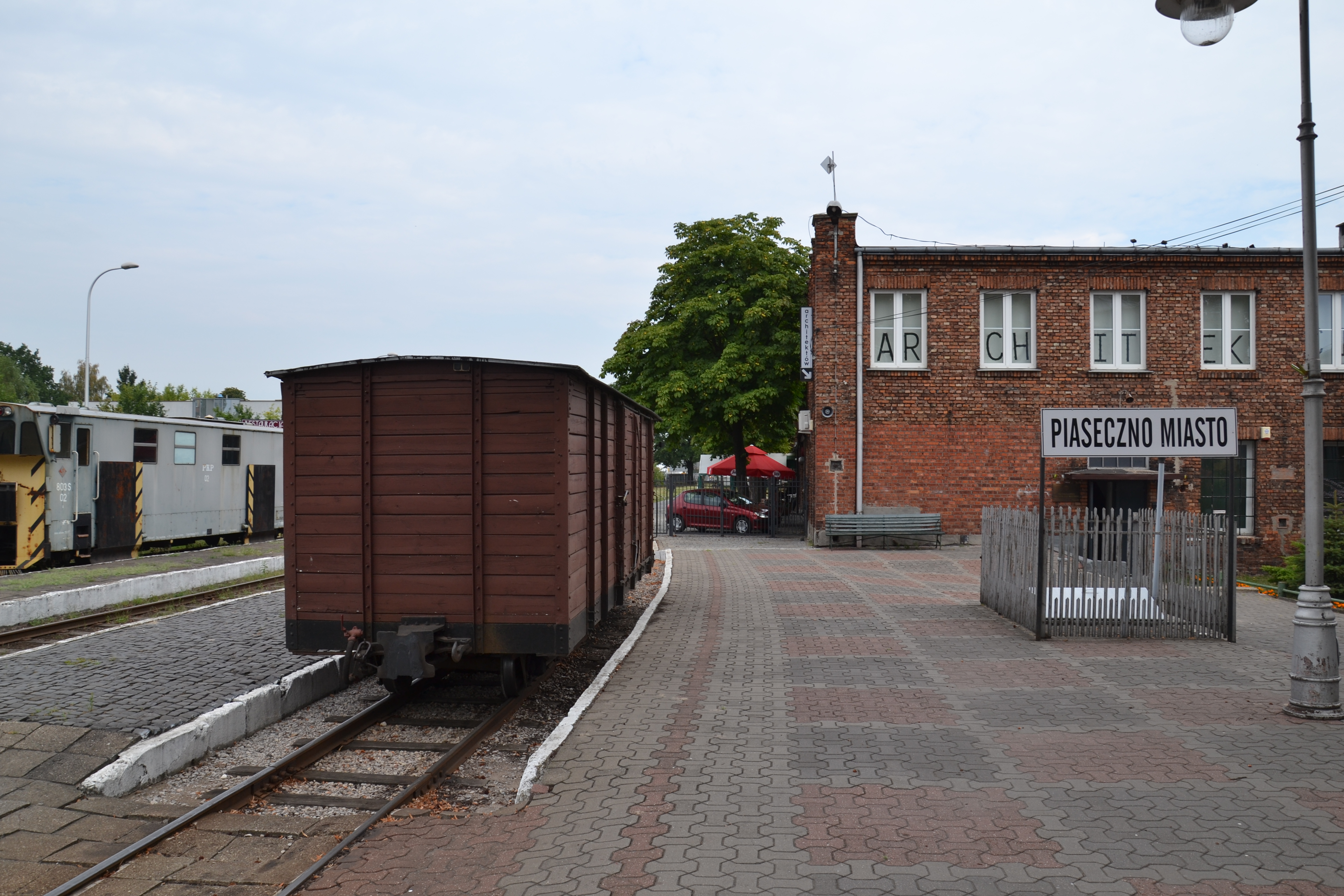 Stacja Piaseczno Wąsk. This photo was taken during Railway Wikiexpedition 2015 set up by Wikimedia Polska Association in cooperation with Fundacja Grupy PKP.You can see all photographs in category Wikiekspedycja kolejowa 2015.